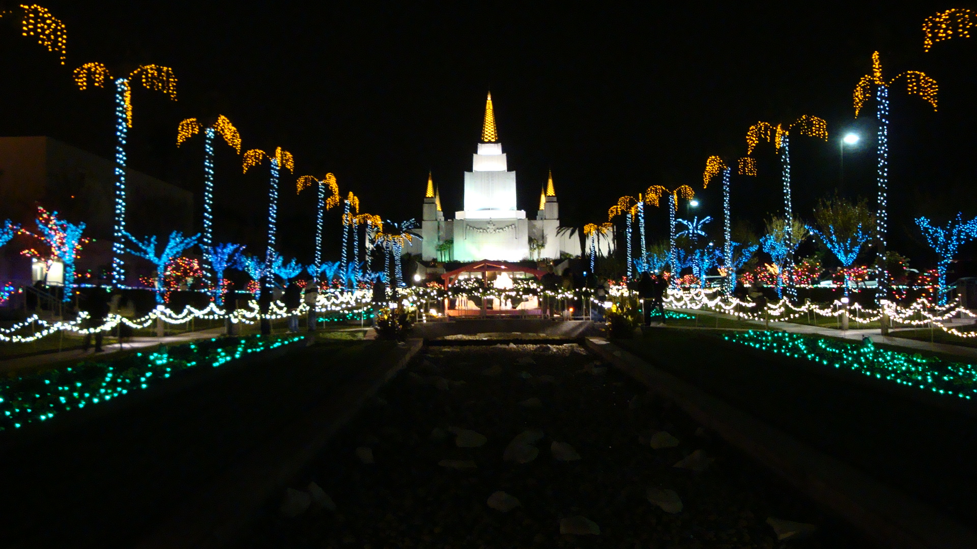 Oakland California Temple of The Church of Jesus Christ of Latter-day Saints at Christmas